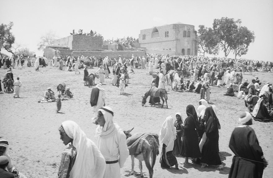 Sey'd Hussein Shrine, cropped